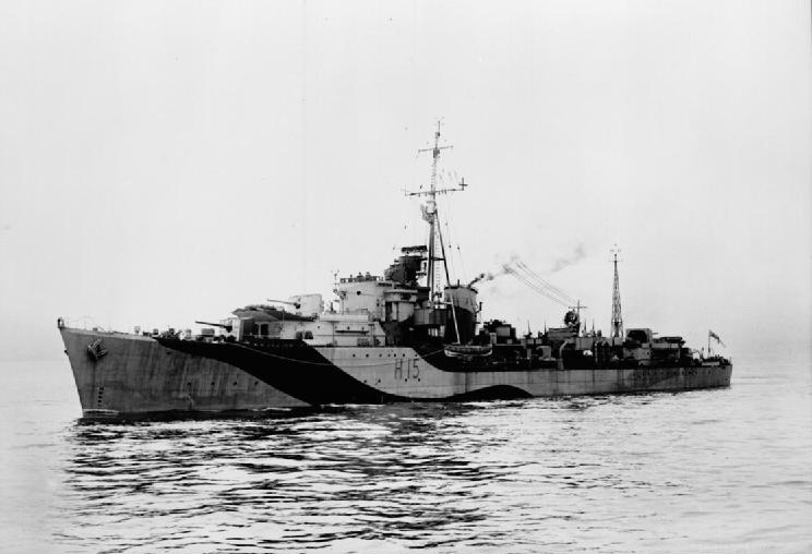 Photograph of British destroyer HMS Raider.